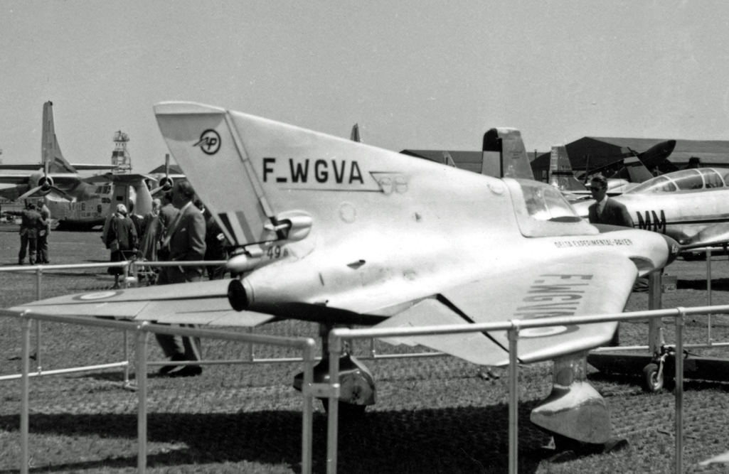 The prototype Payen Pa49 Experimental jet aircraft on display at the 1957 Paris Air Salon at Le Bourget airport